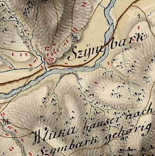 szymbark